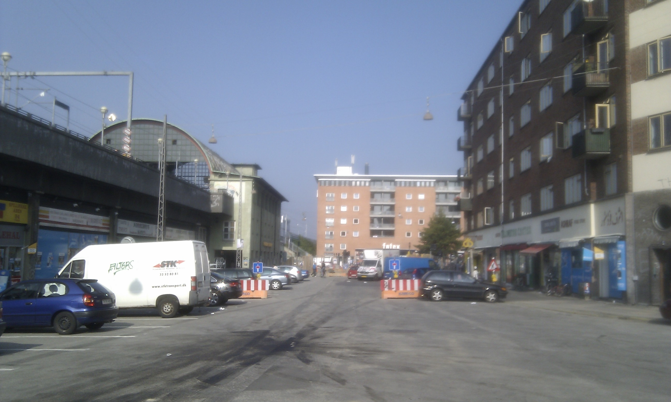 Future site of Nørrebro metro station.